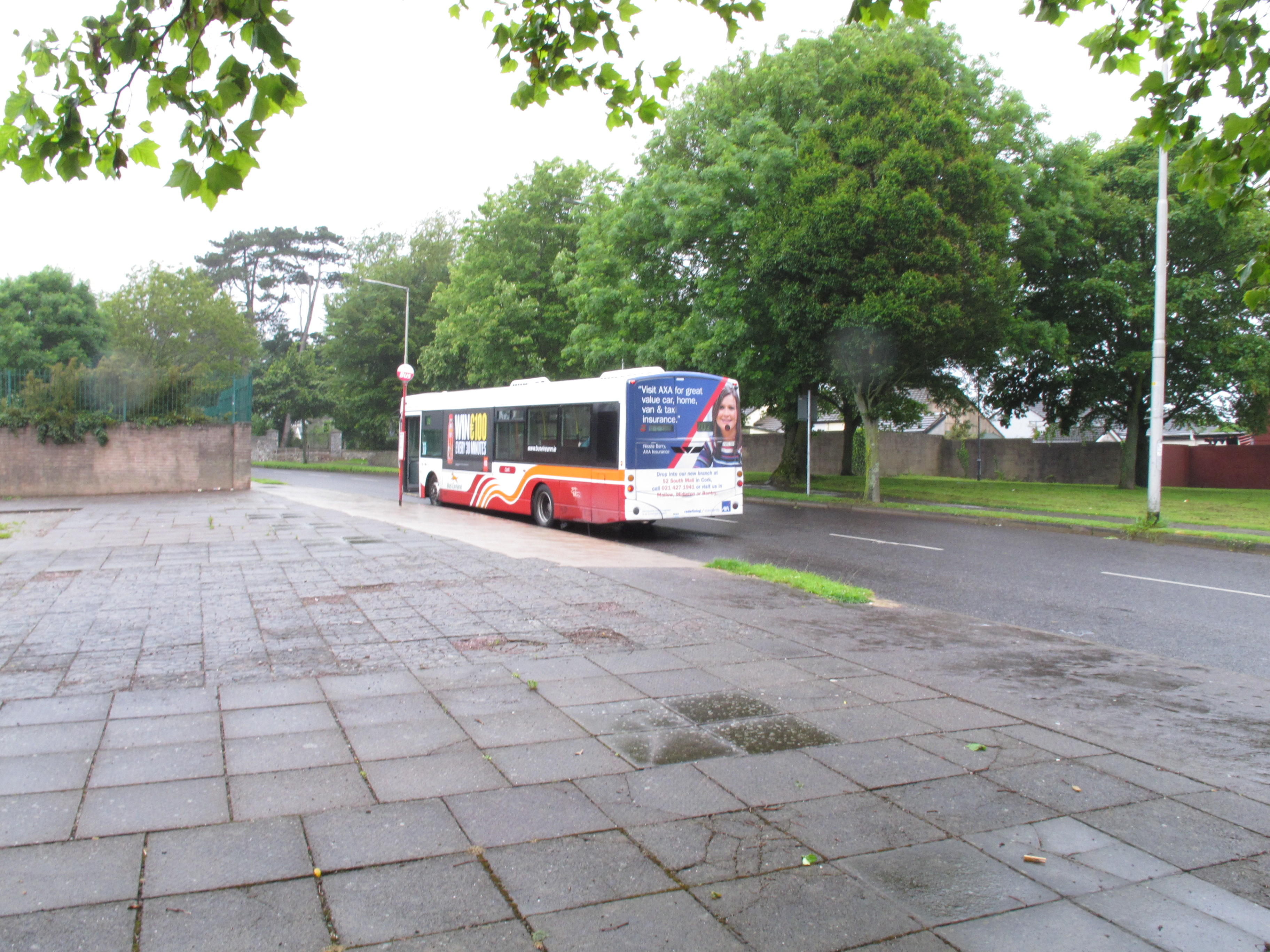 Bus stand in Mahon, Cork